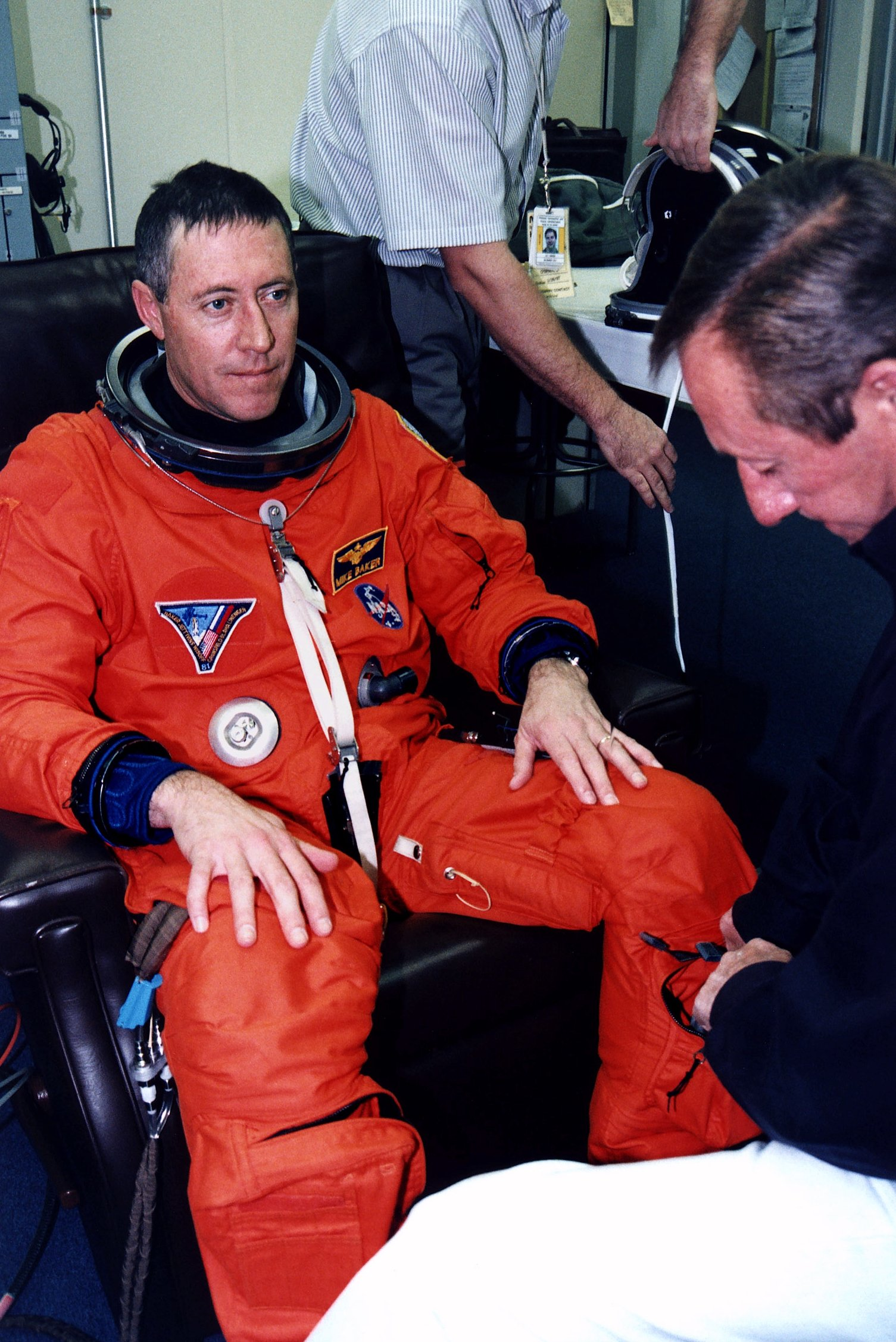 STS-81 Mission Commander Michael A. Baker is assisted into his launch/entry suit in the Operations and Checkout (O&C) Building. Baker is on his fourth space flight and will have responsibility for the 10-day mission, including the intricate docking and undocking maneuvers with the Russian Mir space station. He will also be in charge of two in-flight Risk Mitigation experiments and be the subject of a Human Life Sciences experiment. He and five crew members will shortly depart the O&C and head for Launch Pad 39B, where the Space Shuttle Atlantis will lift off during a 7-minute window that opens at 4:27 a.m. EST, January 12. (Photo Release Date: 1/12/97)